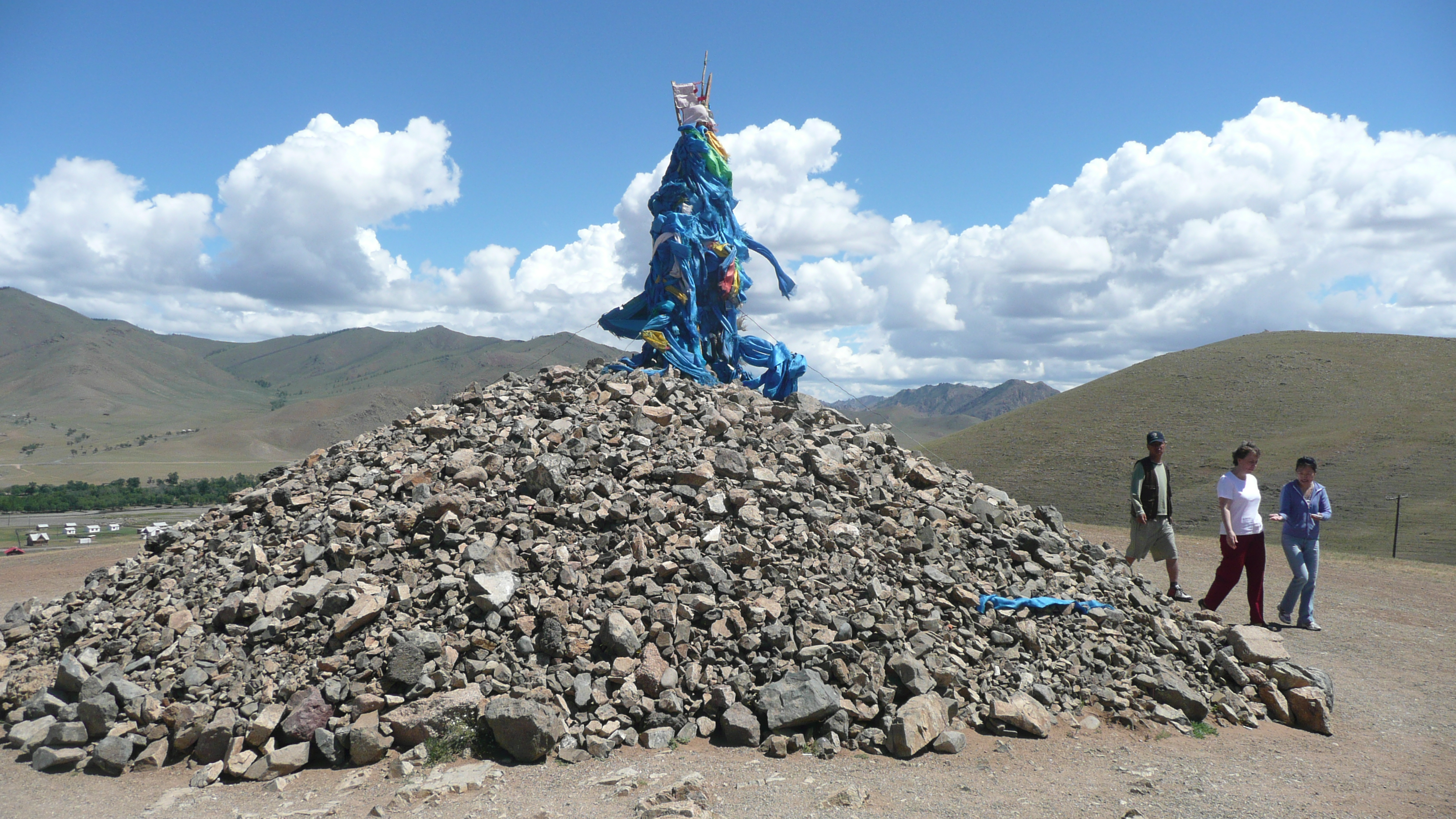 Gorkhi-Terelj National Park